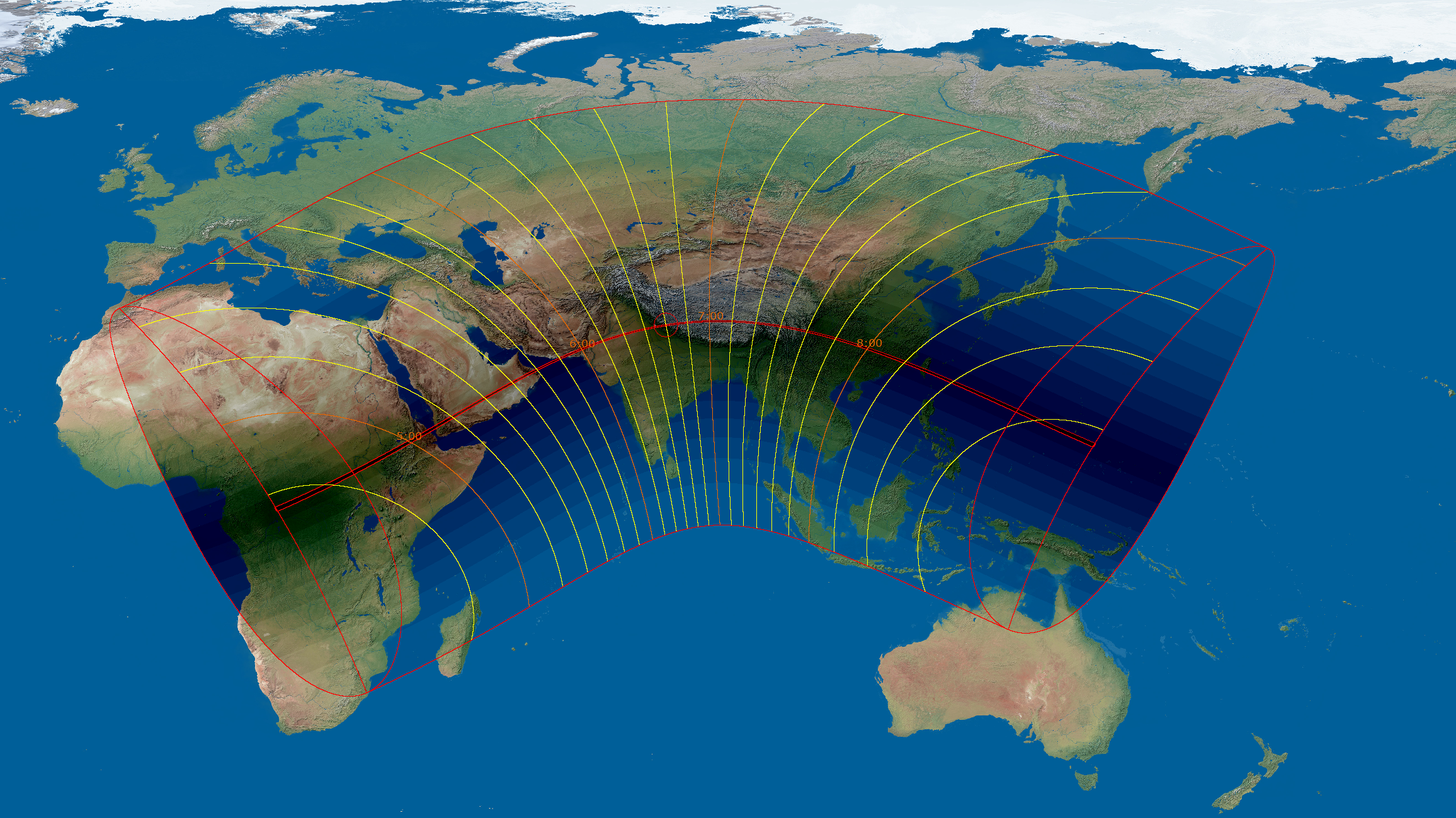 Global map of the Solar eclipse Scale 1° = 10px